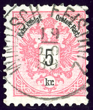 Austrian KK stamp, 5 kreuzer issue 1883, cancelled WINDISCH FEISTRITZ (Styria) in 1889, now Slovenska Bistrica (Slovenia).